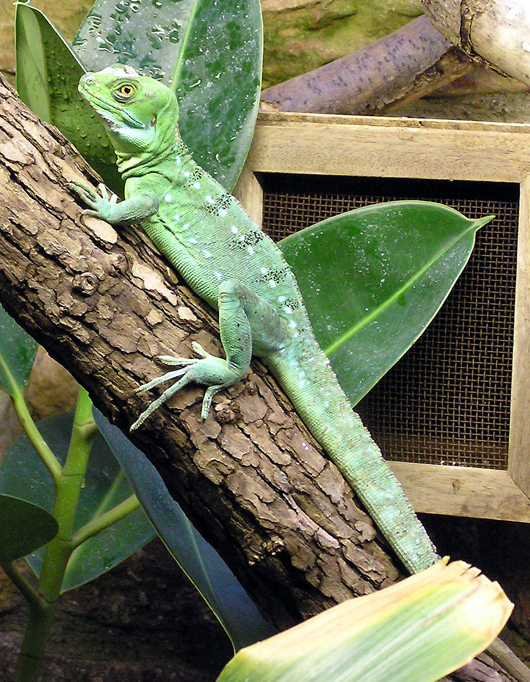 Plumed basilisk Basiliscus plumifrons at Bristol Zoo, Bristol, England. Photographed by Adrian Pingstone in January 2005 and released to the public domain.